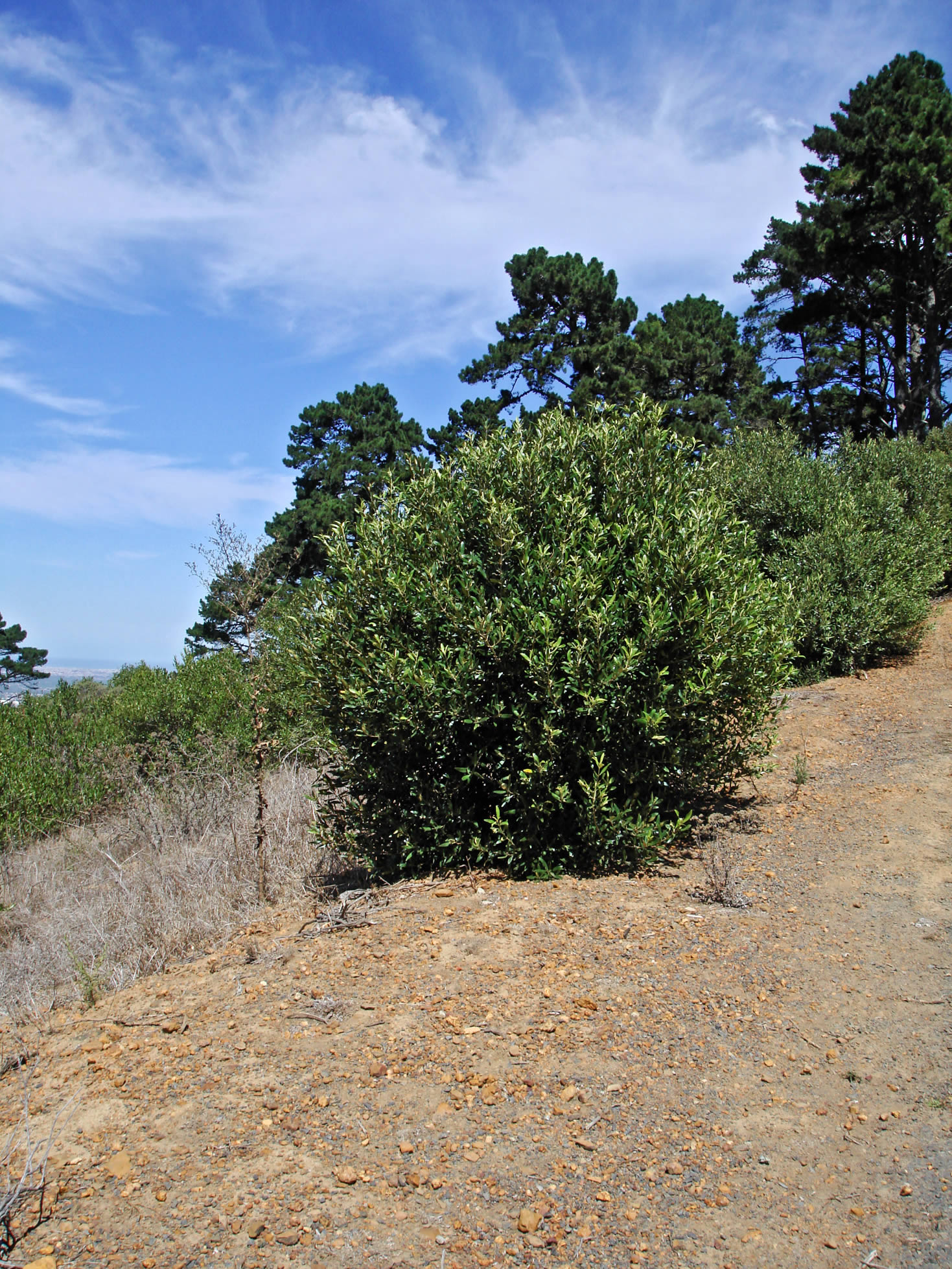 I believe this is an example of Renosterbos? I'm possibly wrong. :) Nonetheless, "Renosterveld vegetation types are among the most threatened in the world with less than 3% conserved. Renosterveld grows on clay soils that are richl in nutrients, formed from the weathering of Malmesbury Shale and Cape Granite rocks and where there is moderate winter rainfall between 250 and 600 mm annually. Originally Renosterveld was rich in palatable grasses, Rooigras, and supported herds of game and livestock. Today most of the rich soils are transformed into wheat, fruit and wine farms or urban development or are overgrazed, leaving the unpalatable Renosterbos as the dominant plant. Renosterveld means Rhinoceros bush and the Black Rhinoceros did once roam this area."